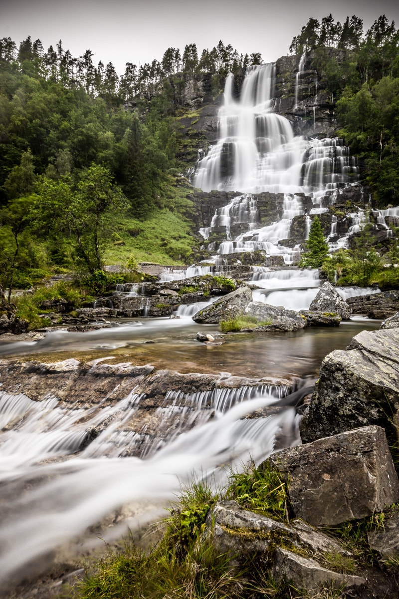 500px provided description: If you like my pictures please support me buying a print from my shop thanks! You can follow me on [#sky ,#landscape ,#water ,#nature ,#travel ,#europe ,#outdoor ,#motion ,#rocks ,#photo ,#sony ,#norway ,#waterfall ,#long exposure ,#cliff ,#photography ,#full frame ,#fullframe ,#geotagged ,#a7 ,#ultra wide ,#sony a7 ,#Tvindefossen ,#sonya7 ,#sony fe 16 35 ,#sonyfe1635]